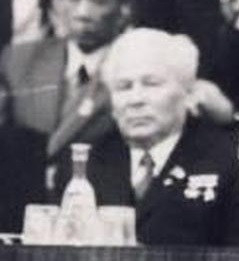 Konstantin Chernenko as seen during Nicolae Ceauşescu's visit to Moscow 60 years after the formation of the USSR